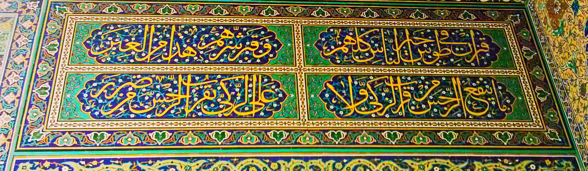 Diʻbil al-Khuzāʻī-Arabic Praise poetry on Ali al-Ridha-Tiling-Balasar Mosque (Latitudinal Cropped). The Arabic text reads: قٌبرانِ في طُوسَ خيرُ الناسِ كلِّهُم وقَبْرُ شرِّهُم، هذا مِن الْعِبَرِ ما ينفعُ الرجسَ منْ قربِ الزكيَّ ، وما على الزكيَّ بقربِ الرجسِ منْ ضررِ